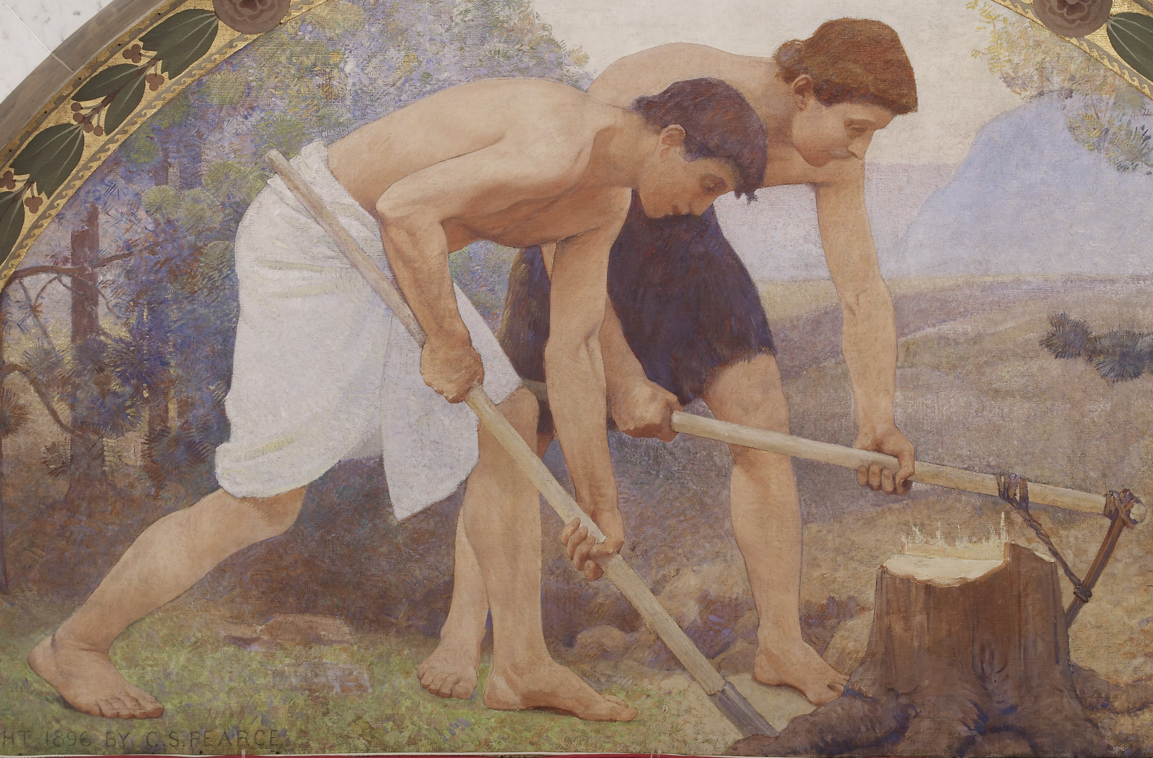 Detail from Labor mural in lunette from the Family and Education series by Charles Sprague Pearce. North Corridor, Great Hall, Library of Congress Thomas Jefferson Building, Washington, D.C. Mural contains artist's logo and "COPYRIGHT 1896 BY C.S.PEARCE".